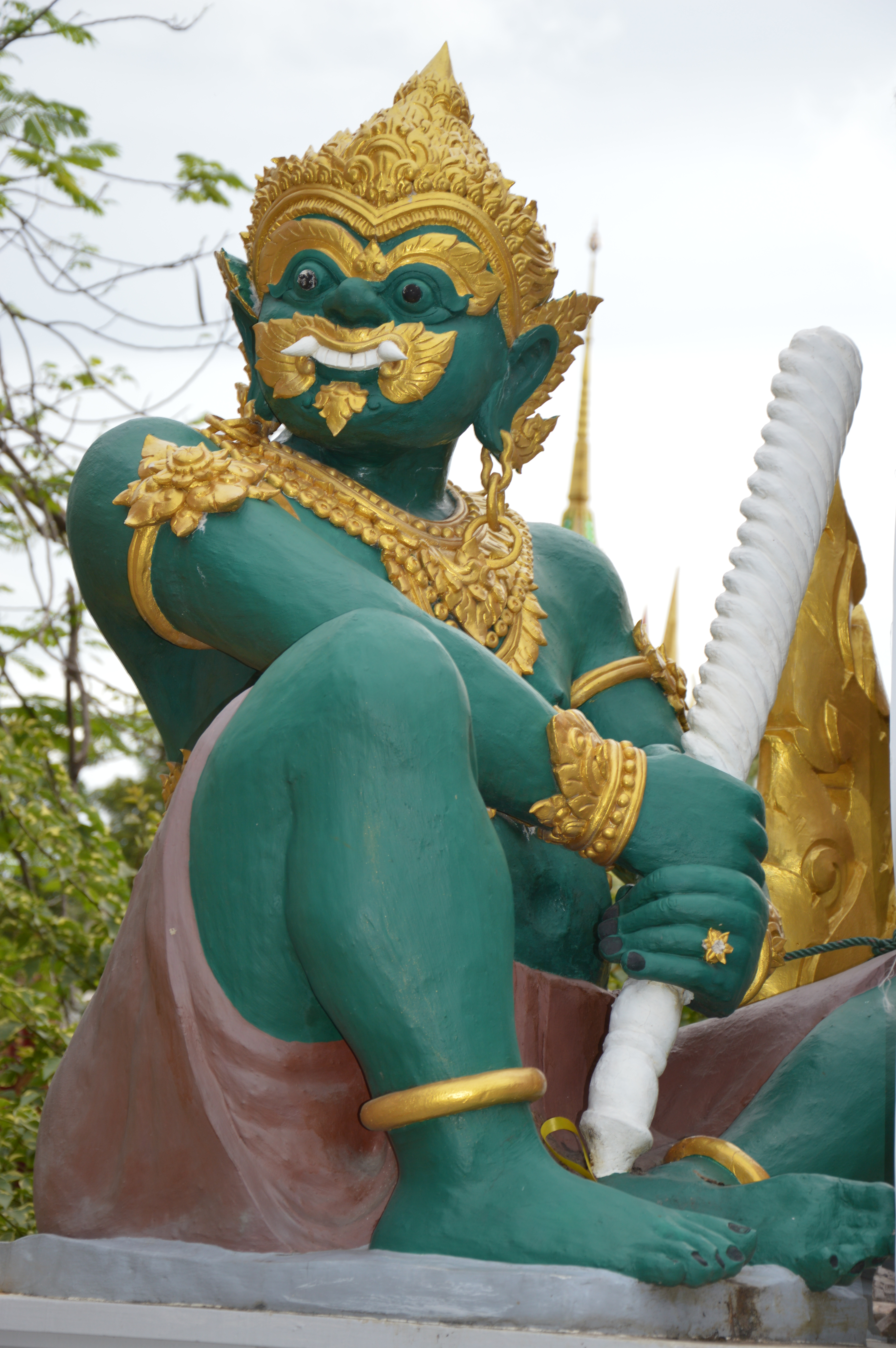 Kinkaew Temple, Samutprakarn, Thailand